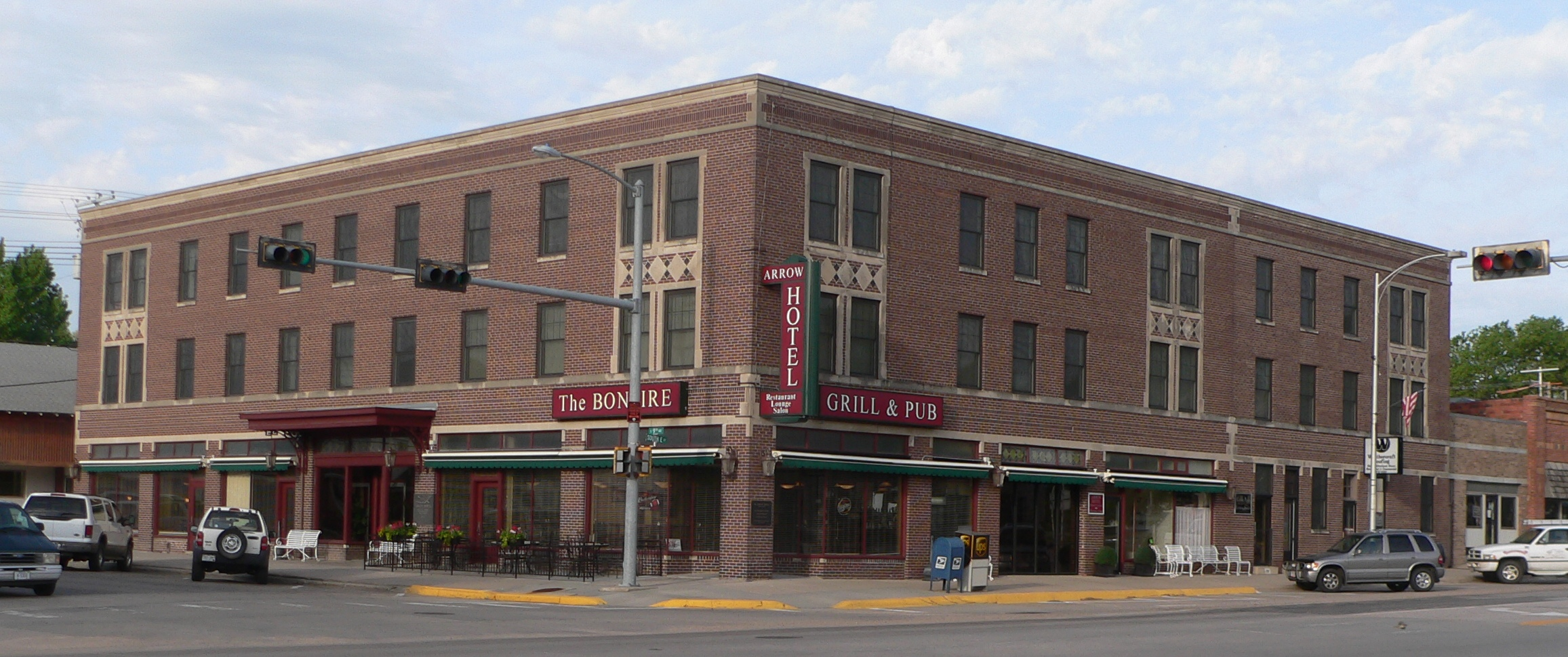 Arrow Hotel in Broken Bow, Nebraska; seen from the northeast. The building was constructed in Prairie School style in 1928, and is listed in the National Register of Historic Places. It continues to serve as a hotel and restaurant.